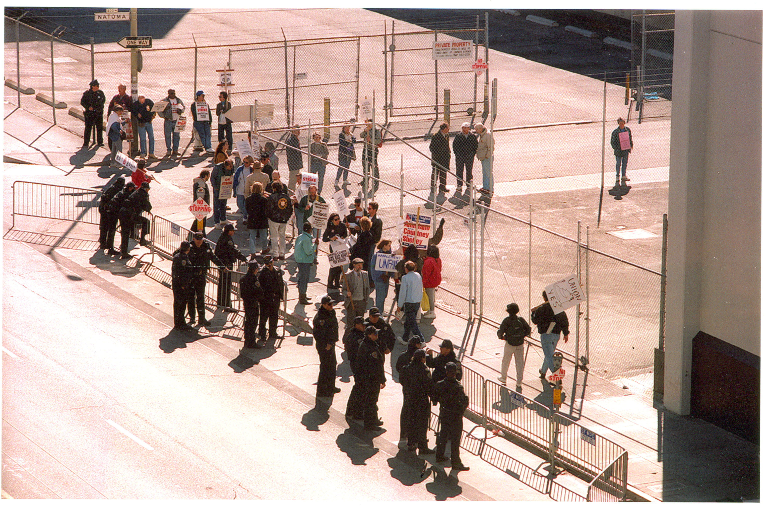 Members of CNU (Conference of Newspaper Unions) march around the area behind the San Francisco Chronicle at Natoma Street on November 3, 1994. An 11 day strike of the San Francisco newspapers, the San Francisco Chronicle and the San Francisco Examiner would follow. Photo by Nancy Wong